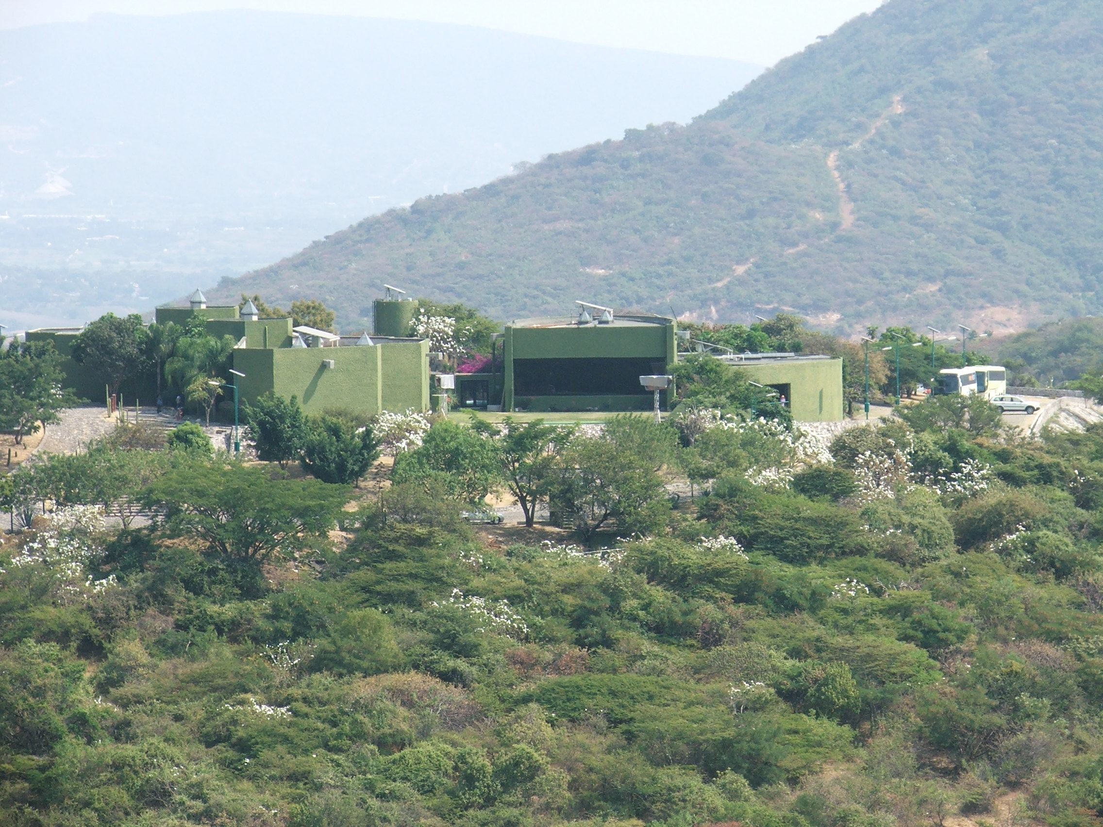 Museum of the archaeological site of Xochicalco in Morelos, Mexico.